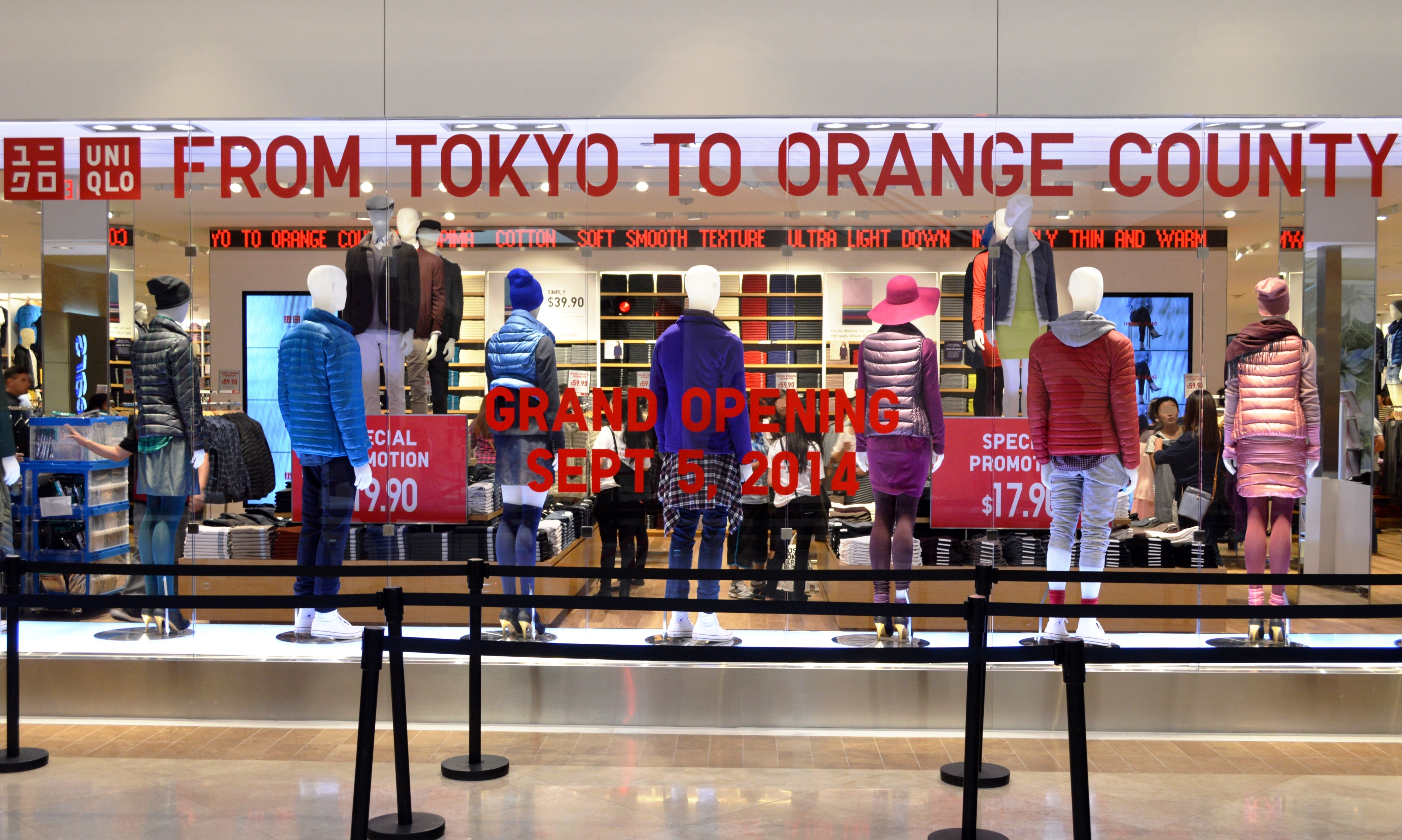 Uniqlo's 2nd day at South Coast Plaza. I couldn't go there on the grand opening day when they had a ribbon-cutting ceremony and a taiko performance; does anyone have media from the 1st day? There was a "Family Day" event in front of the store on the 2nd day (Saturday), featuring Disney drawing, karaoke, games and prizes; the store carries "Disney Project" shirts in collaboration with Disney and it's right next to Disney Store. Store employees wearing happi greeted customers at the entrance and handed them a Uniqlo shopping bag. Inside the shopping bag was a limited edition Uniqlo tote bag; the first 500 customers per day during the grand opening weekend (September 5-7, 2014) received these tote bags.